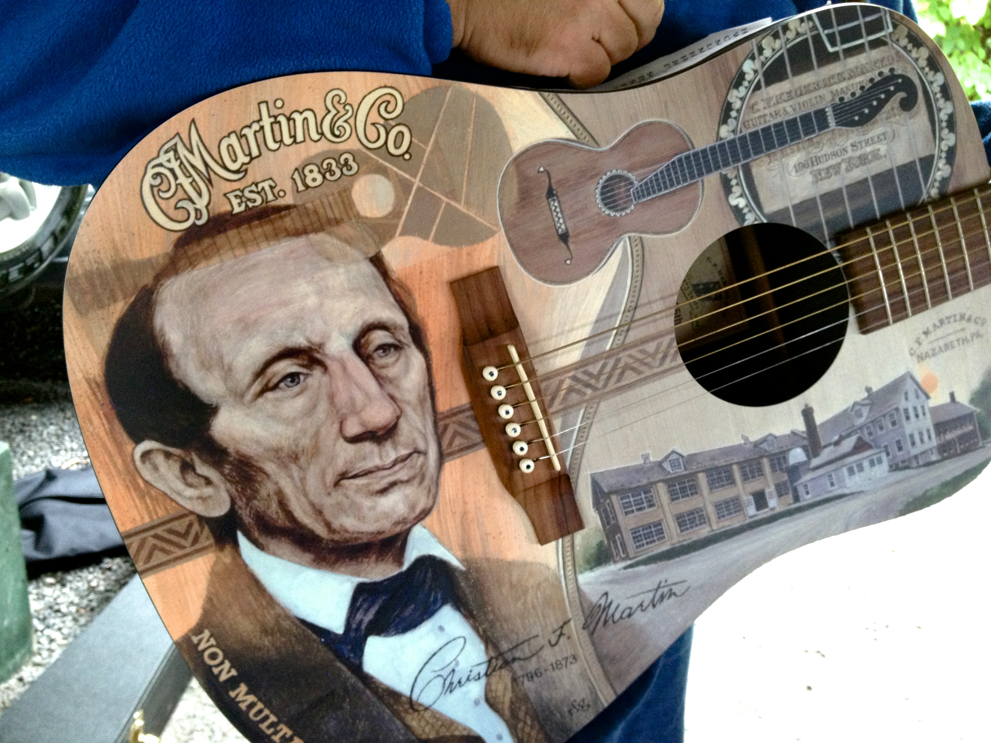 C. F. Martin Limited Edition 175th Anniversary DX (2008) painted guitar body Christian F. Martin (1786-1873) "Illustrated Martin. Spotted at Saratoga Springa Farners Market"